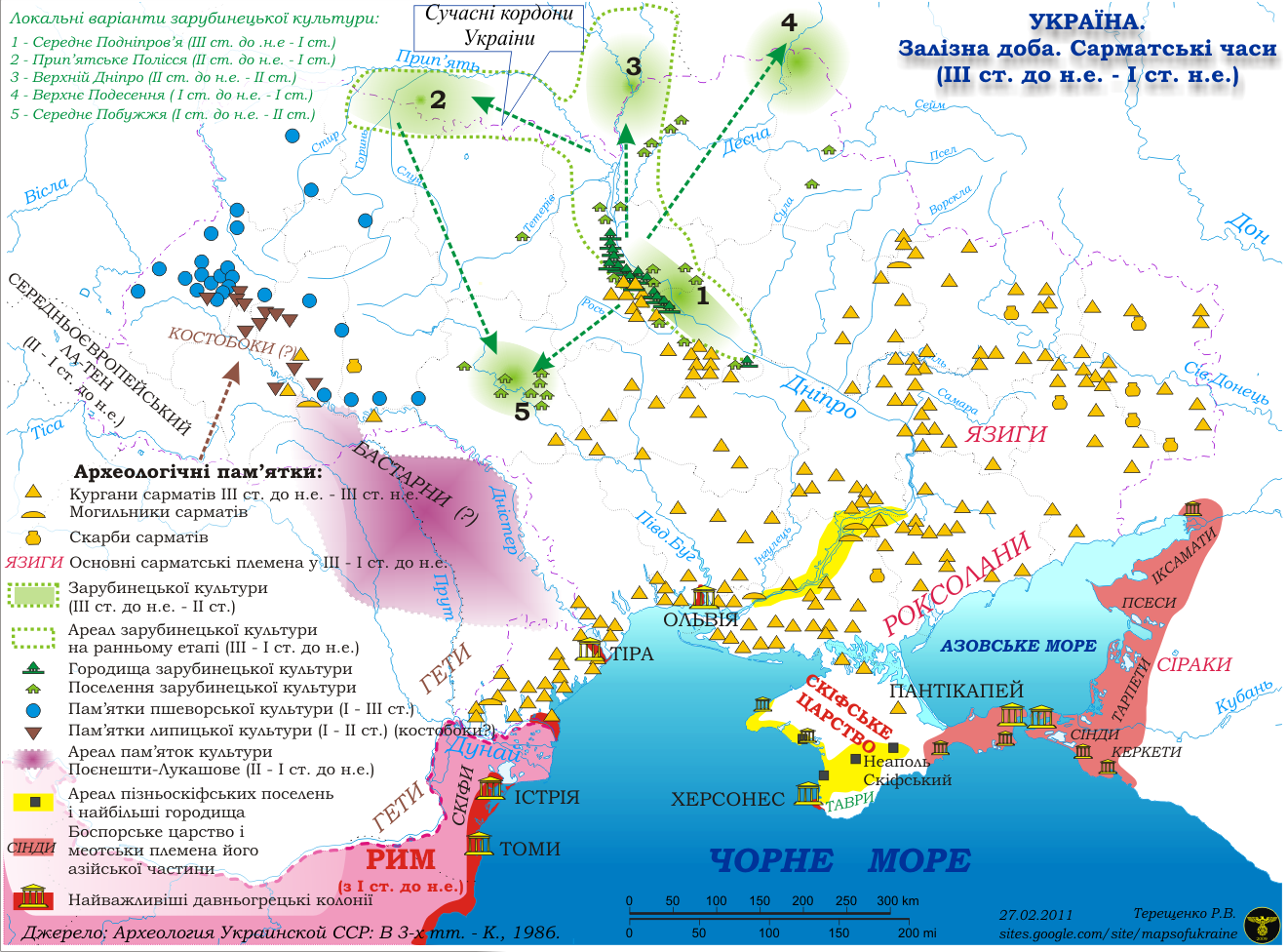 Sarmatian era in Ukraine. III. B.C. - I century AD